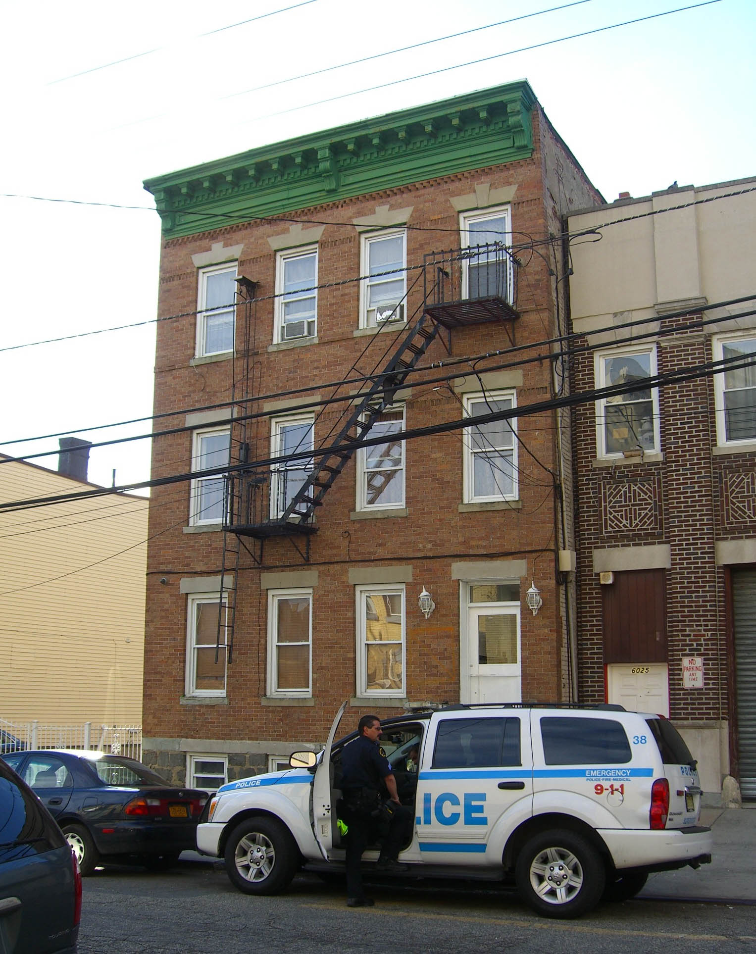 Building located at 6023 Buchanan Place in West New York, New Jersey. On April 19, 2013 (the day before this photo was taken) the FBI, the West New York Police Department and the Hudson County Sheriff's Department seized computer equipment from the apartment of Alina Tsarnaeva, one of the sisters of the suspects in the Boston Marathon Bombing, which was located in this building. Authorities were alerted by an interview that ABC News's Anthony Johnson conducted with Tsarnaeva, that had been broadcast at 8am EST that morning.[1] This photo was created by Luigi Novi. It is not in the public domain, and use of this file outside of the licensing terms is a copyright violation.